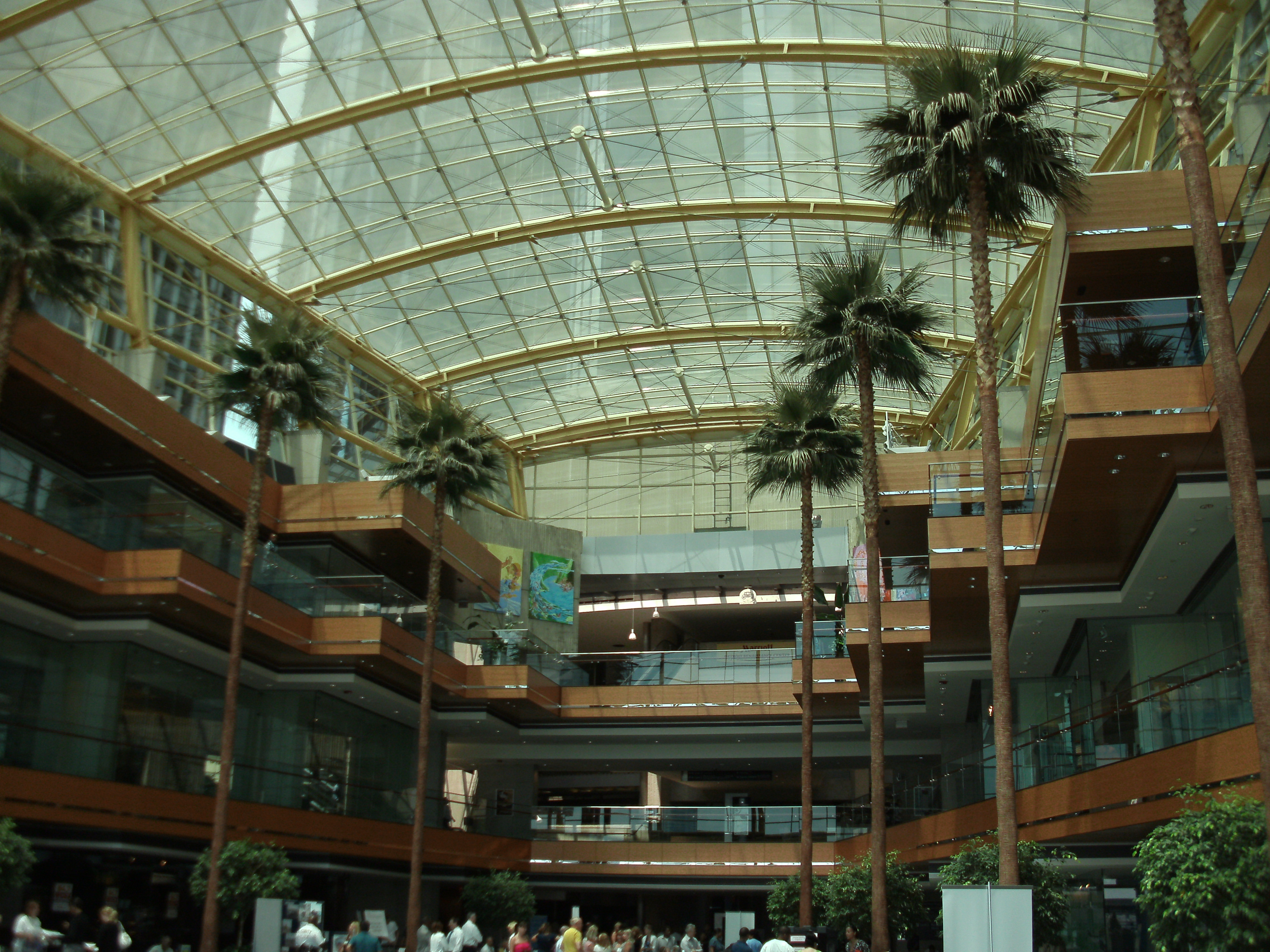 Photograph of the Wintergarden at the GM Renaissance Center in Detroit, Michigan. The Wintergarden faces the Detroit International Riverfront.